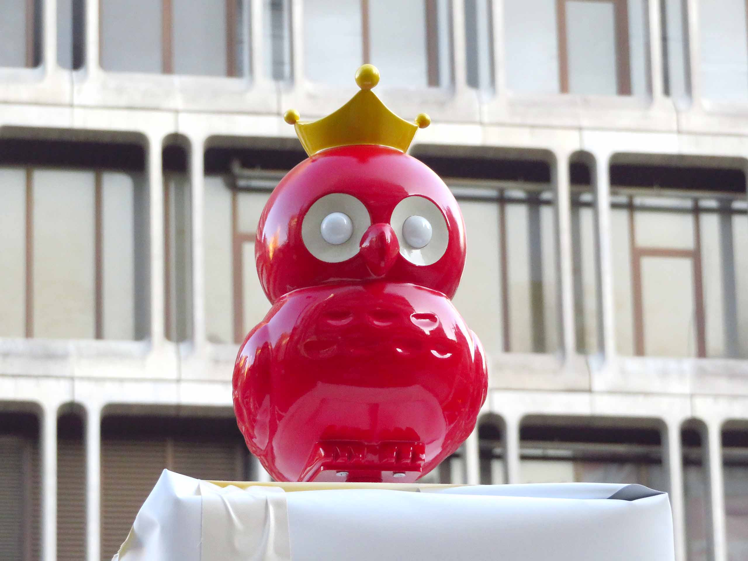 IKE-chan object, mascot for IKEBUS, equipped bus stop signs and each buses.